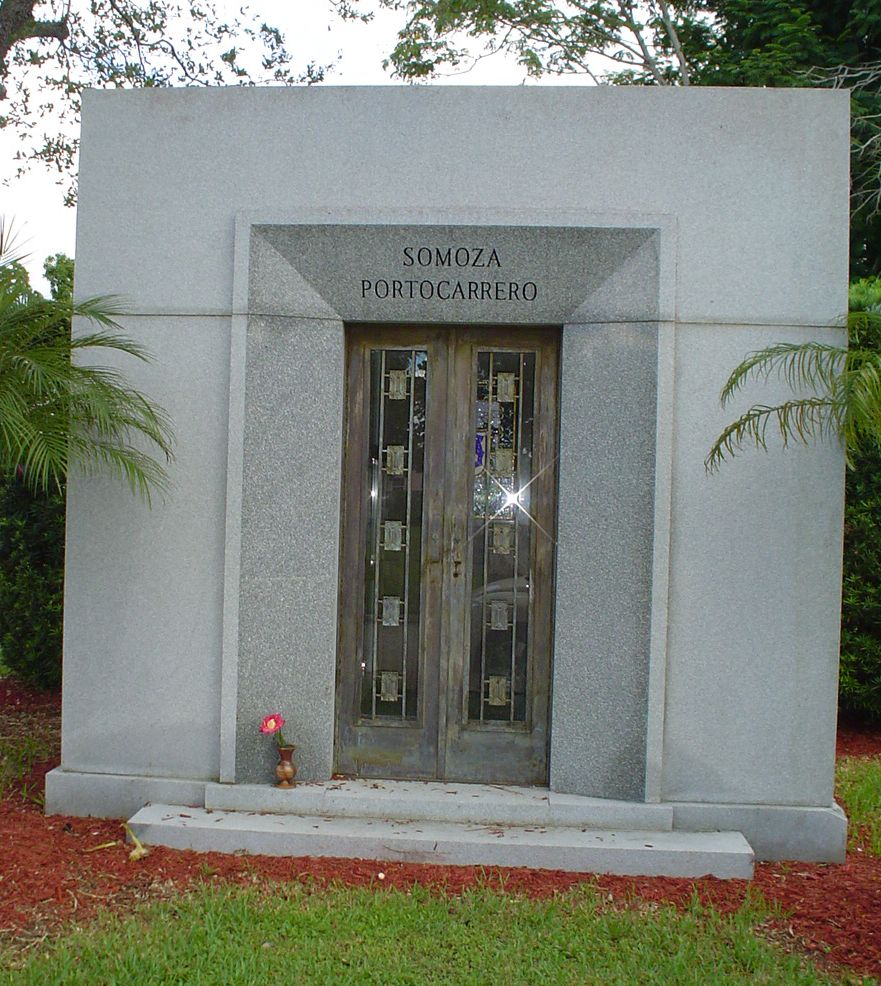 The grave of the Somoza family in Miami, Florida.